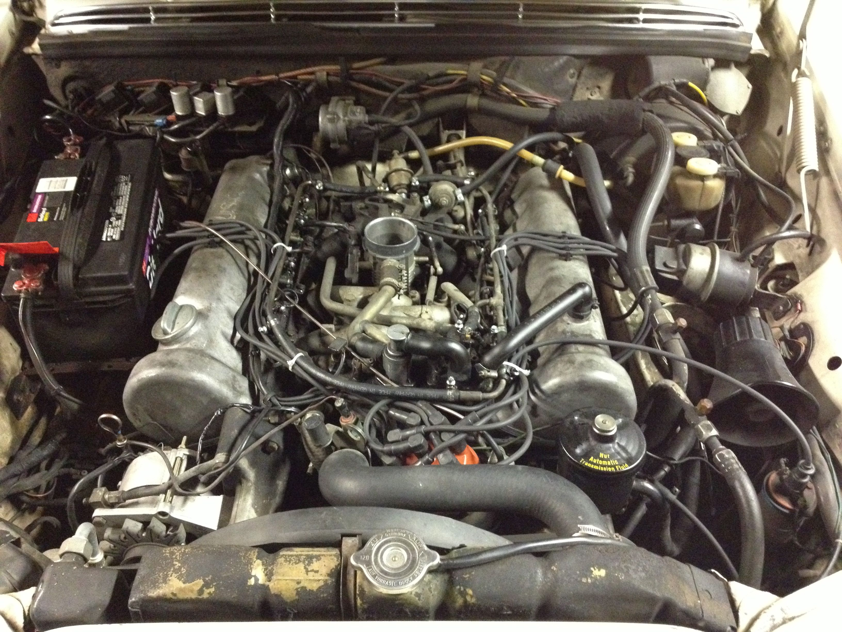 Mercedes M117, W108 Engine